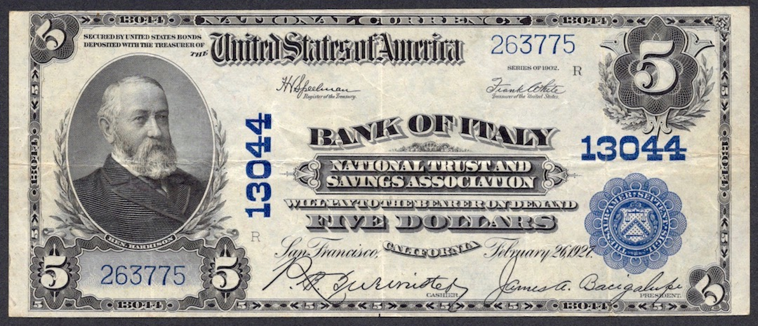 Series 1902 $5 United States National Bank Note issued in 1927 by the Bank of Italy National Trust and Savings Association, of San Francisco, charter number 13044.